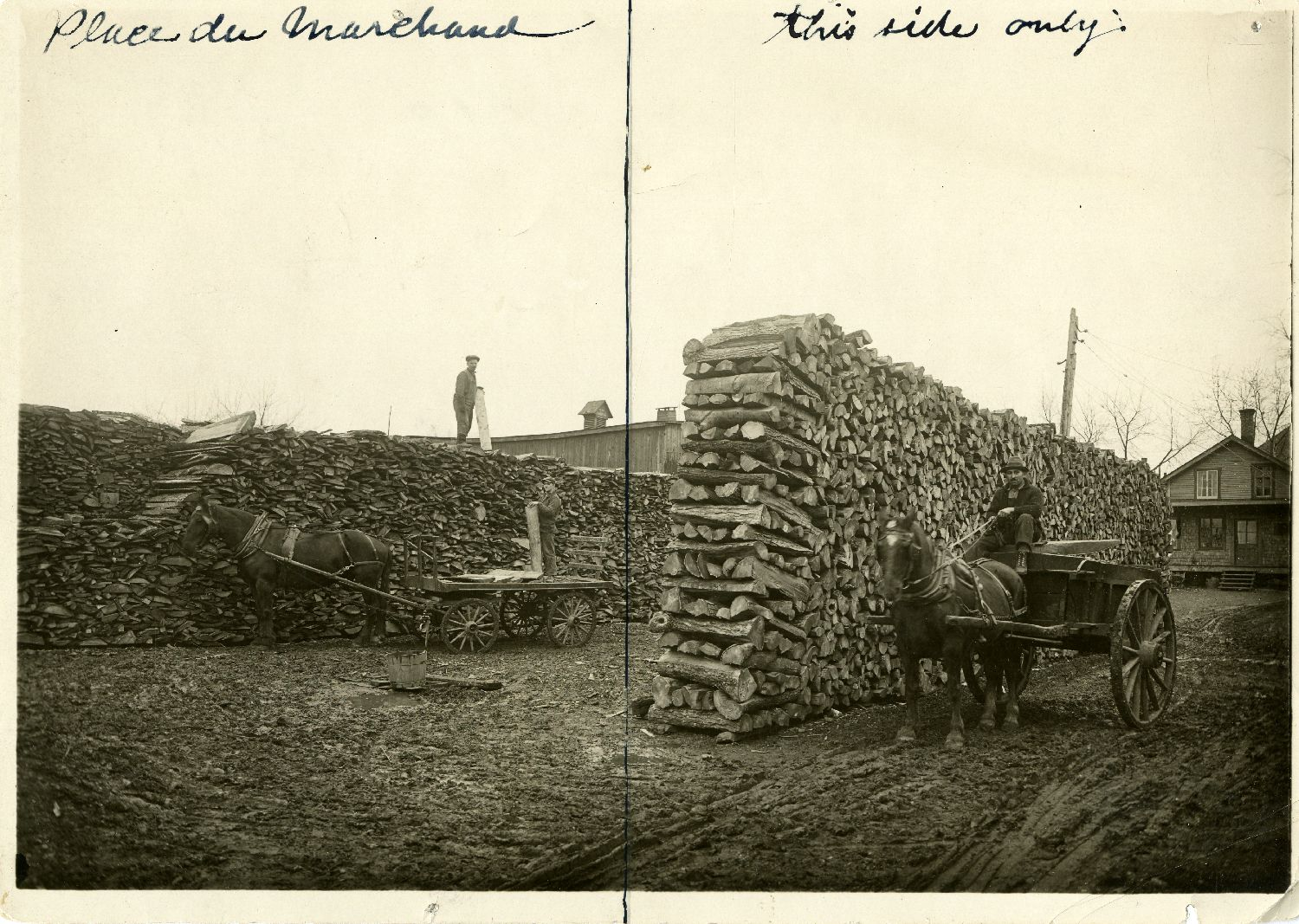 Information added by Wikimedia users. BAnQ